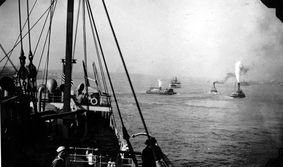 S.S. American Legion, ship, being towed up River Plate, Buenos Aires. 1926. Name of Expedition: 2nd Captain Marshall Field Paleontological Expedition Participants: Elmer S. Riggs (Leader and Photographer),Robert C. Thorne (Collector), Rudolf Stahlecker (Collector), Felipe Mendez Expedition Start Date: April 1926 Expedition End Date: November 1926 Purpose or Aims: Geology Fossil Collecting Location: South America, Argentina, River Plate Original material: album print Digital Identifier: CSGEO69181 Learn more about The Field Museum's